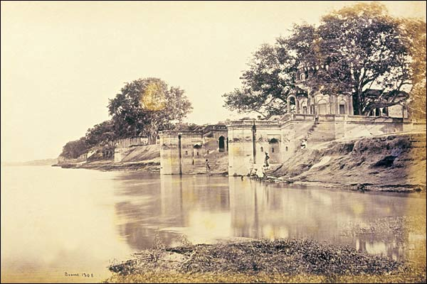 On 27 June 1857, Europeans who had been promised safe passage from Wheeler's entrenchment arrived at the Sati Chaura Ghat (jetty) to take the boat out when Nana Sahib's army ambushed them and killed many. Photo: Samuel Bourne, early 1865.